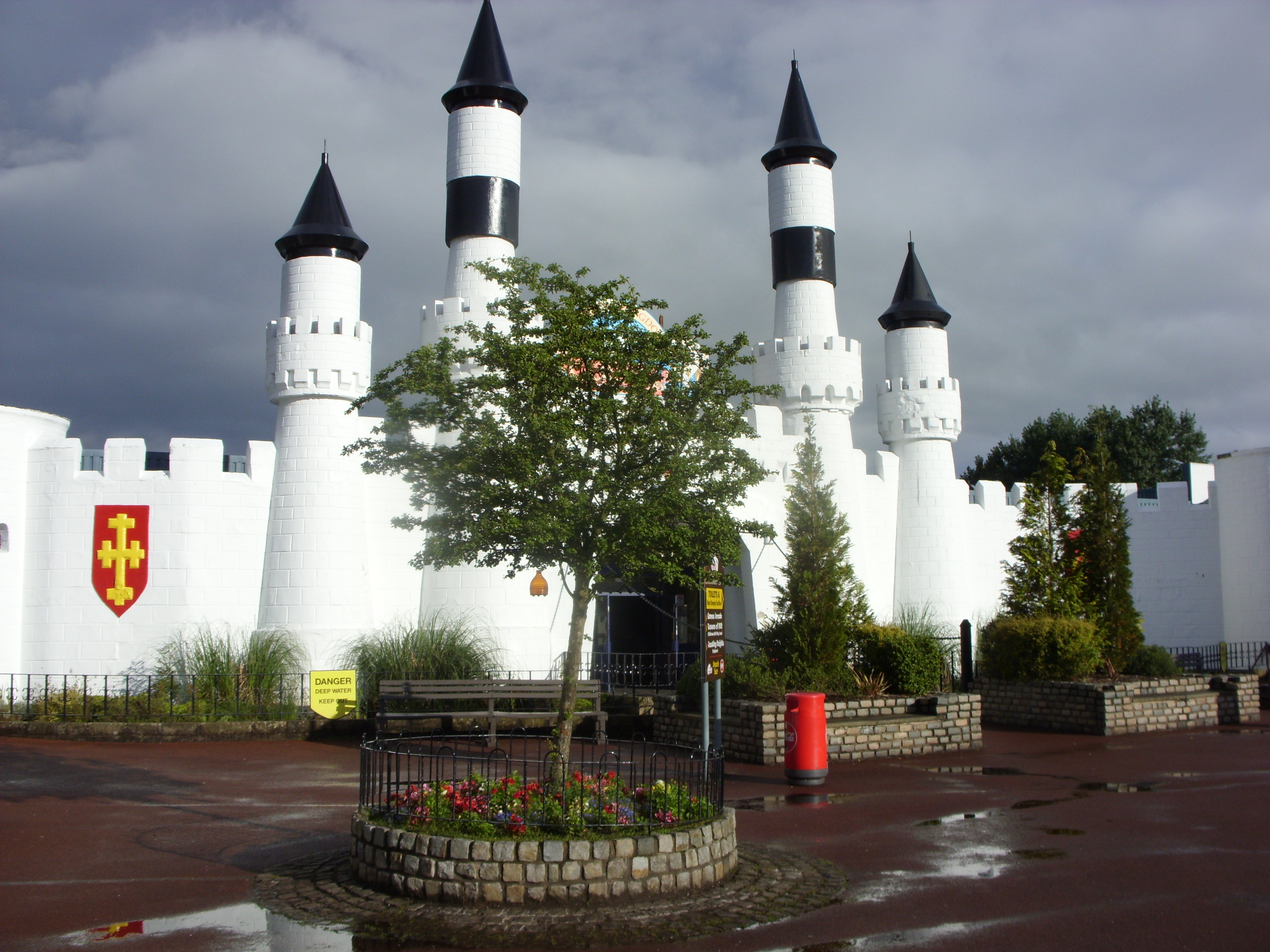 The entrance to the castle, main square, Camelot.